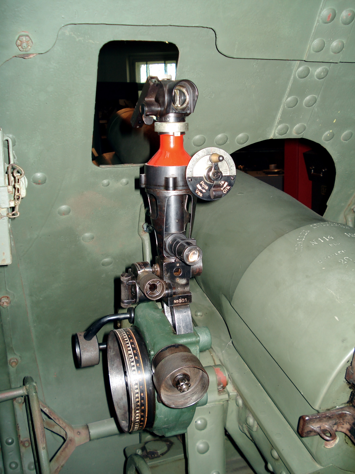 Soviet 122 mm howitzer Model 1910-1930, displayed in Hämeenlinna Artillery Museum. This particular gun was manufactured in Perm in 1926. The Model 1910 howitzer was based on a French Schneider design. They were produced in Imperial Russia and then in the Soviet Union. As was typical for most World War I artillery pieces, the gun was modernised from 1930 onwards, the resulting guns called Model 10-30. One part of the modernization consisted of the addition of a muzzle brake, which is missing on this particular gun. Photo taken on June 18, 2006. Source: Photo by me, User:Balcer.